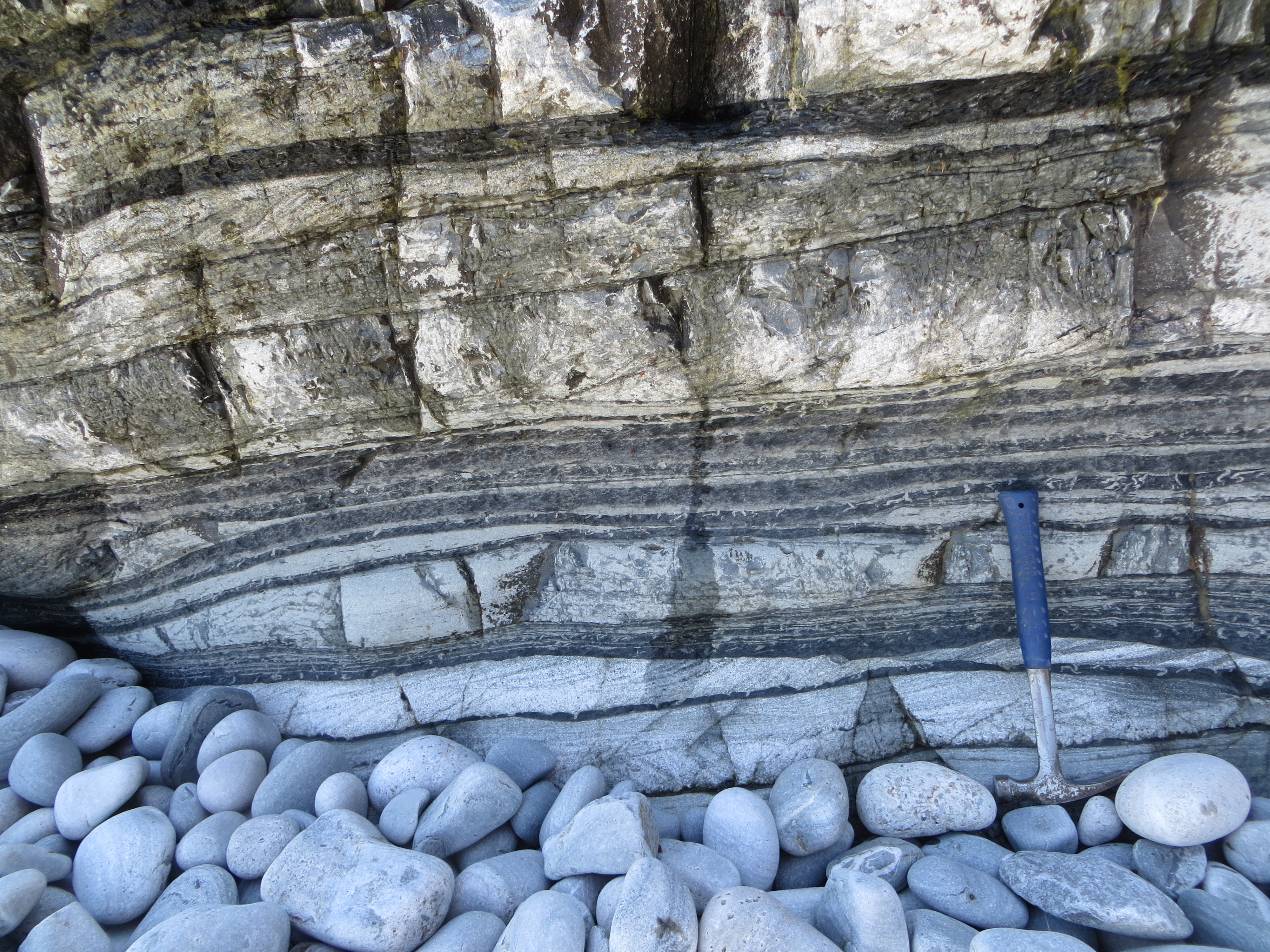 The Random Formation at Thornley, West Trinity Bay, showing synaresis cracks in mudstones and overlying white cross-bedded tital sandstones